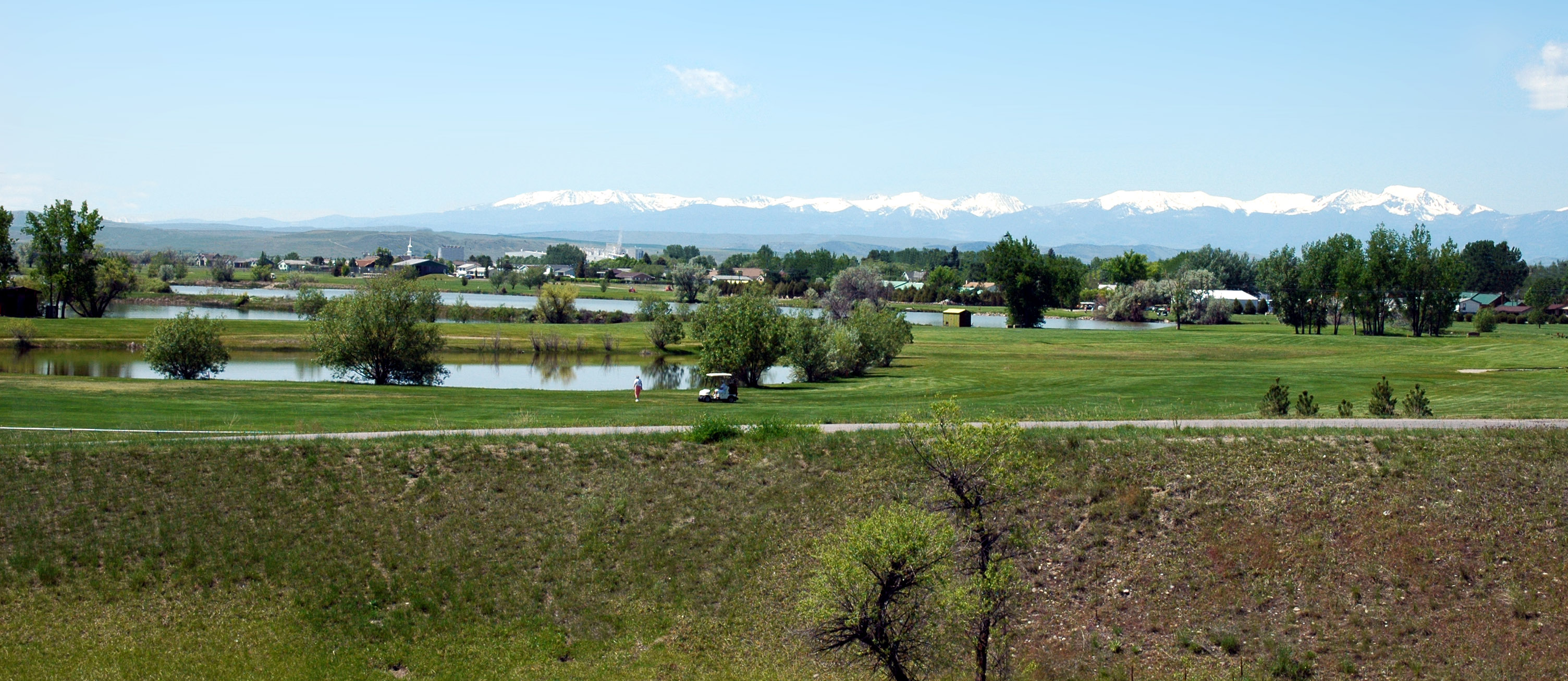 Three Forks, Montana with the Tobacco Root Mountains in the Background